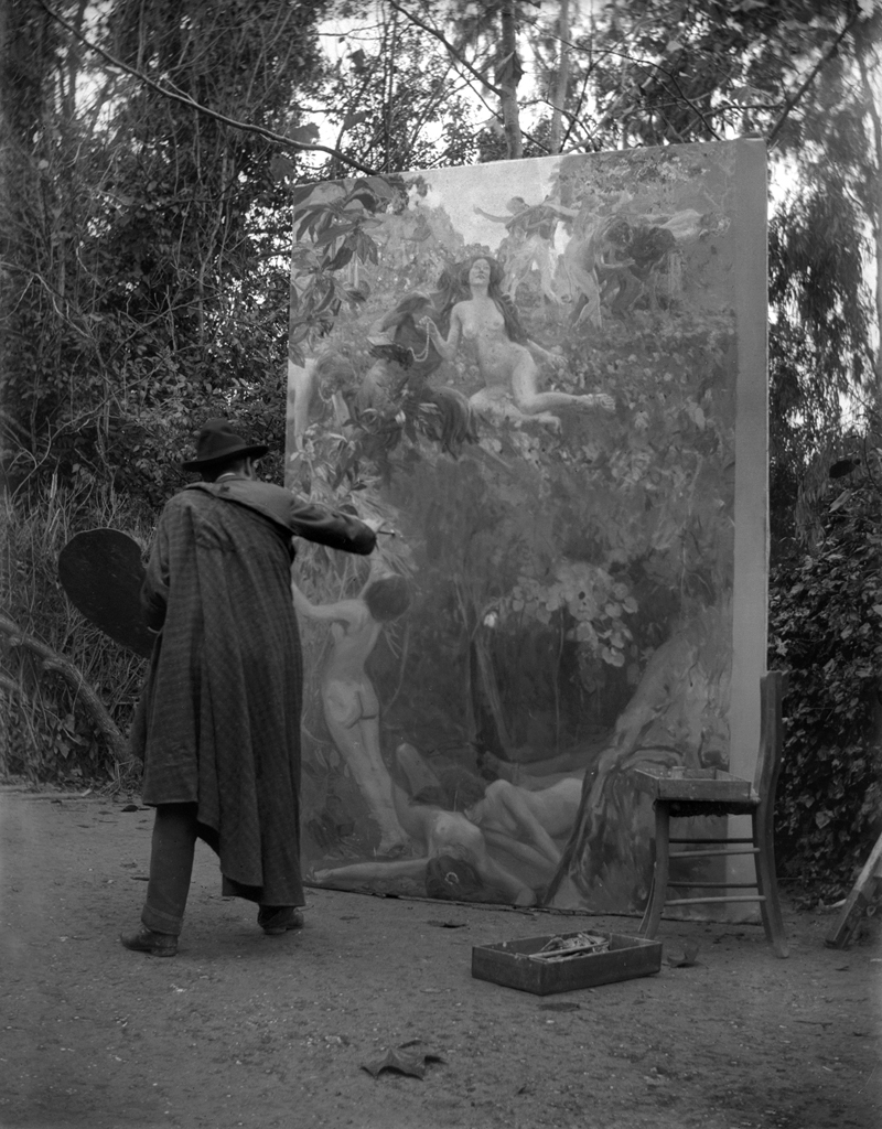 Baldomer Gili Roig painting "Abisme" while in Rome, 1904